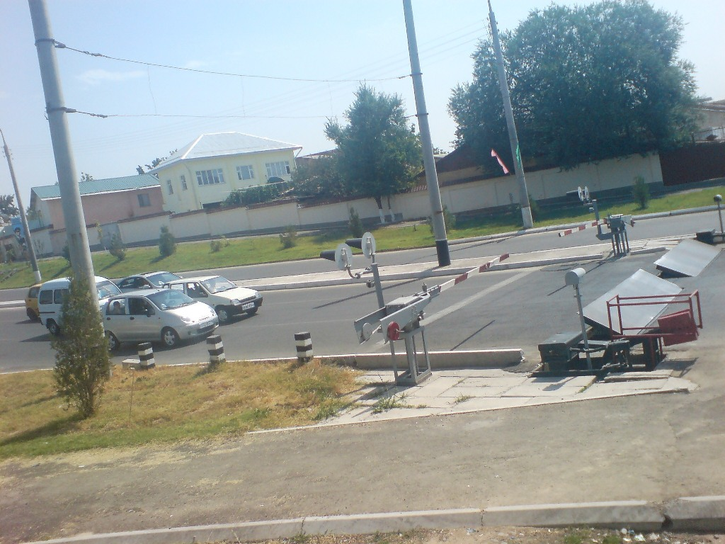 RailRoad Crossing